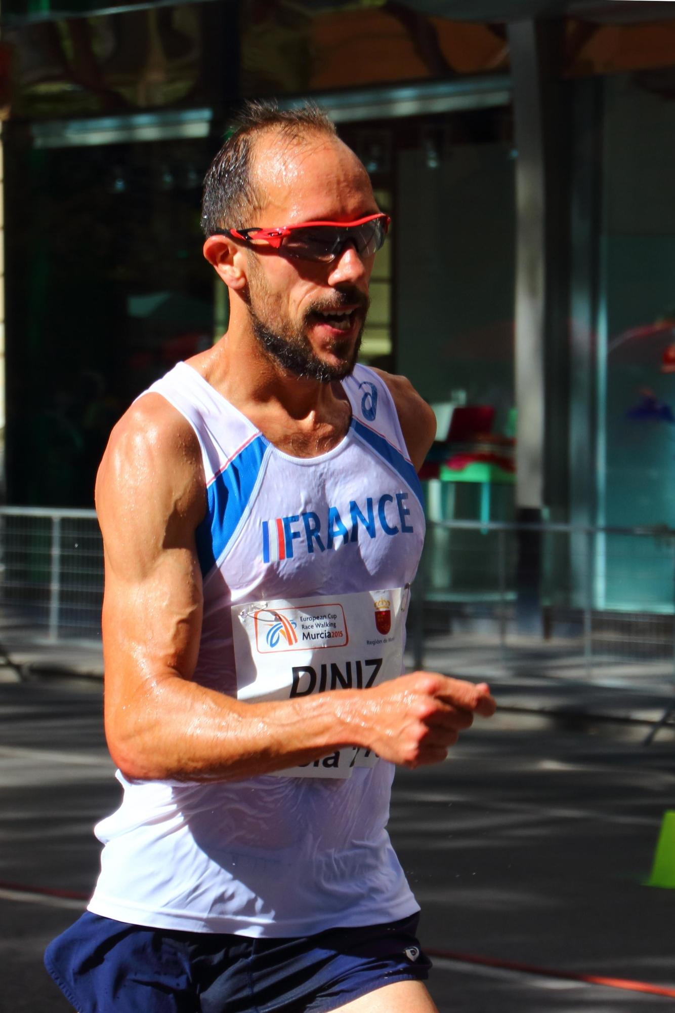 18-Yohann Diniz (FRA) in the 11th European Cup Race Walking Murcia ESP 17 May 2015